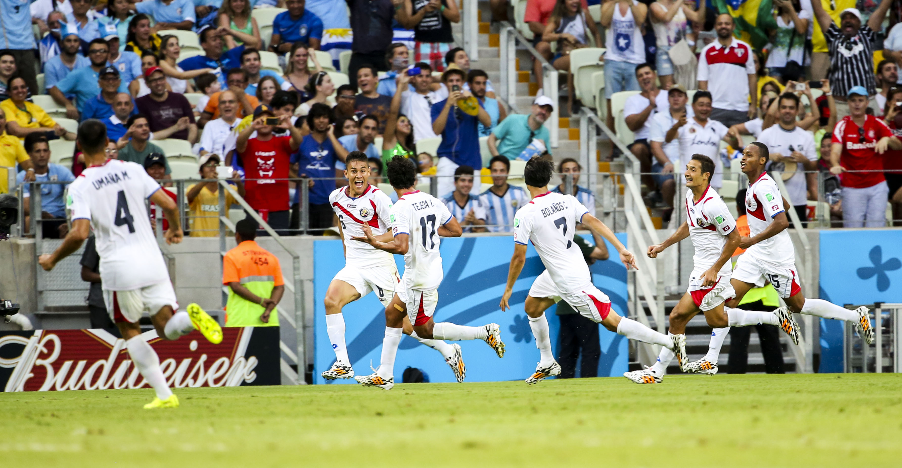 Uruguay and Costa Rica match at the FIFA World Cup 2014-06-14